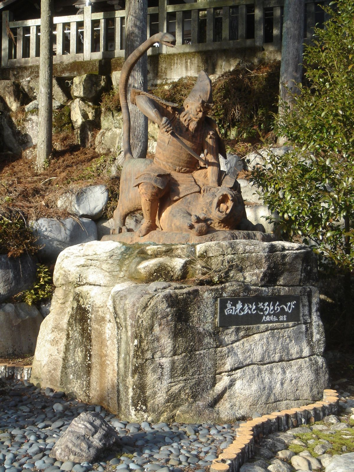 Kouka Jinja in Seki,Gifu.